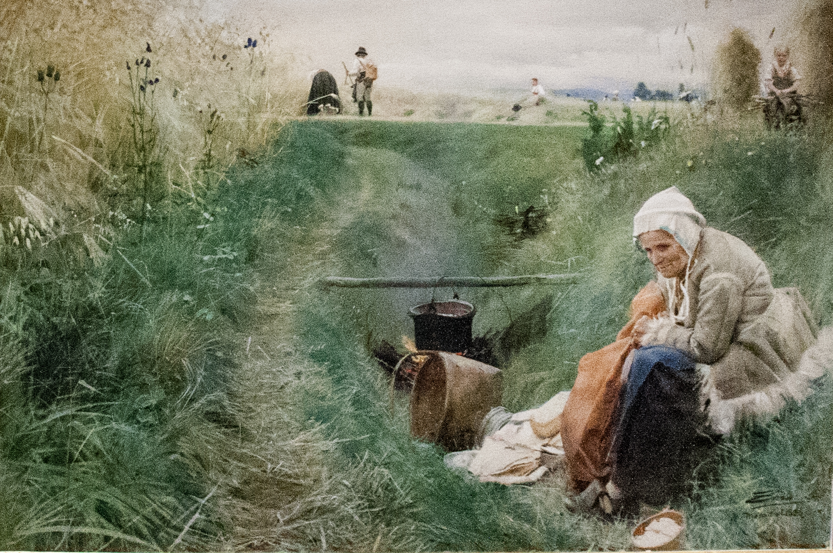 "Our daily bread" depicts the artists mother sitting at the edge of a ditch, cooking potatos for the harvesters.